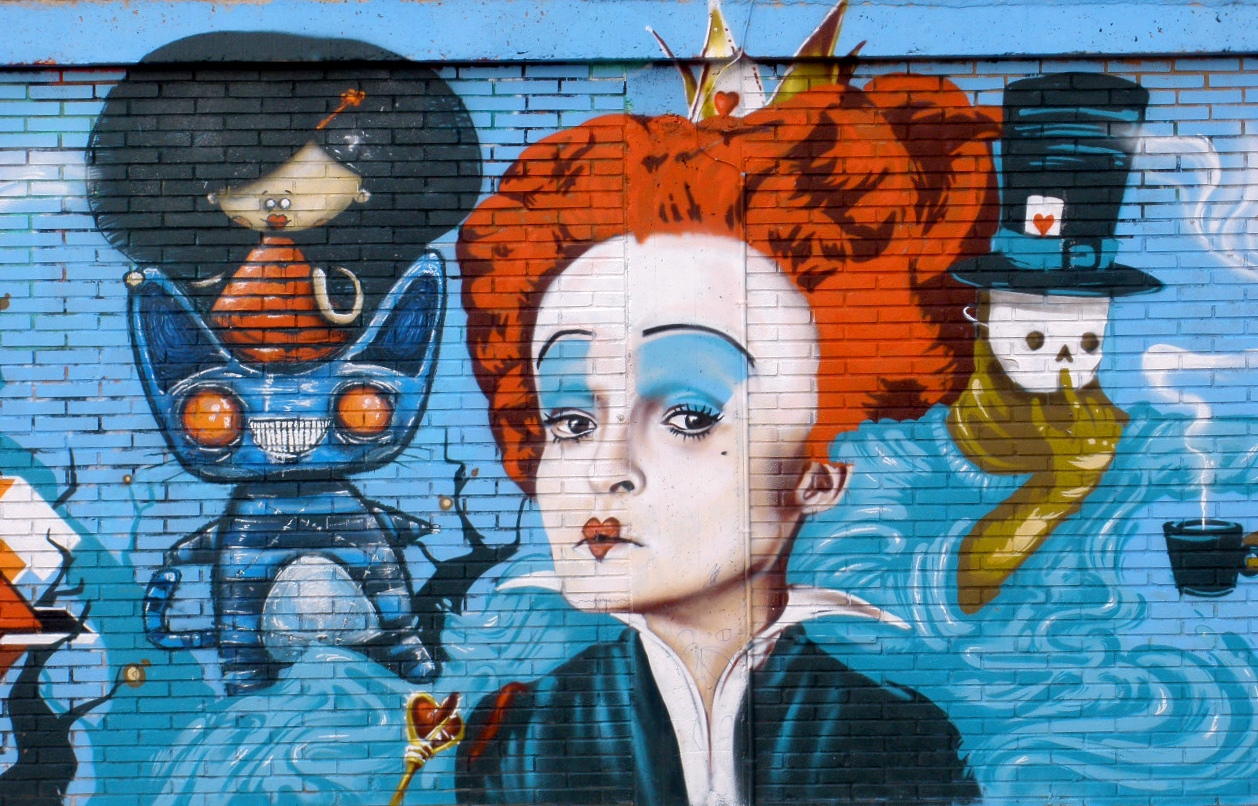 Graffiti en el Colegio Público Ángel Ganivet-Izarra-Santa Lucía, en el barrio de Santa Lucía de Vitoria-Gasteiz. Imagen tomada el 27/12/2010